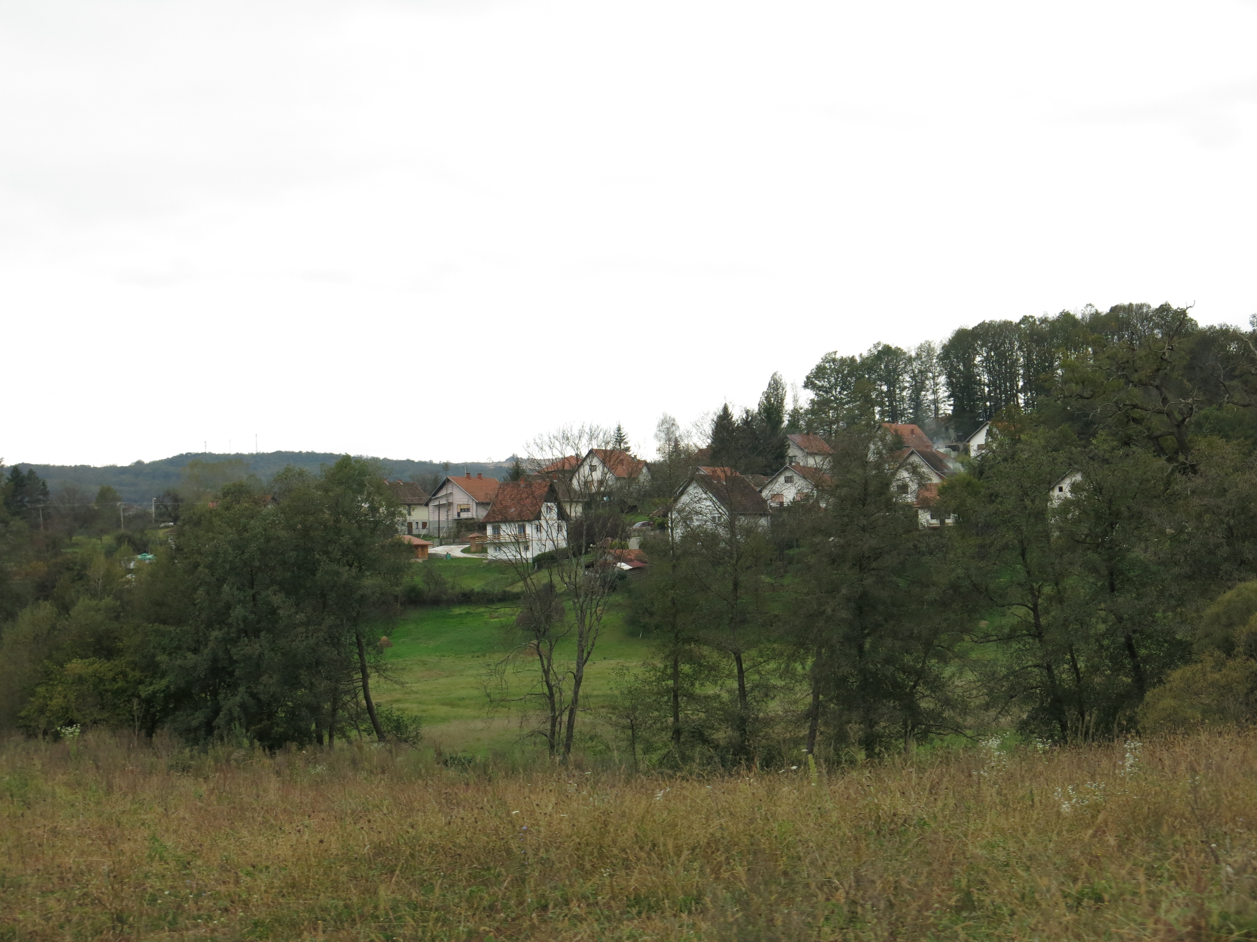 Sinoševići, View of the village